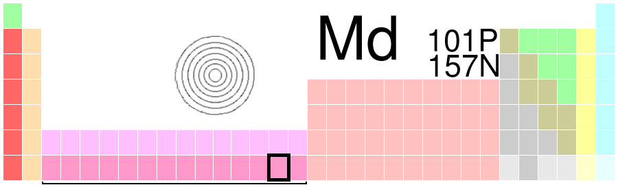 Create by User:Ahoerstemeier similar to the other element boxes